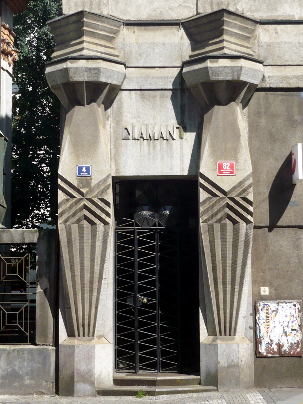 Emil Králíček (1877-1930) - Diamant house, 1912-1913, Prague, Spalena 4, the entrance detail